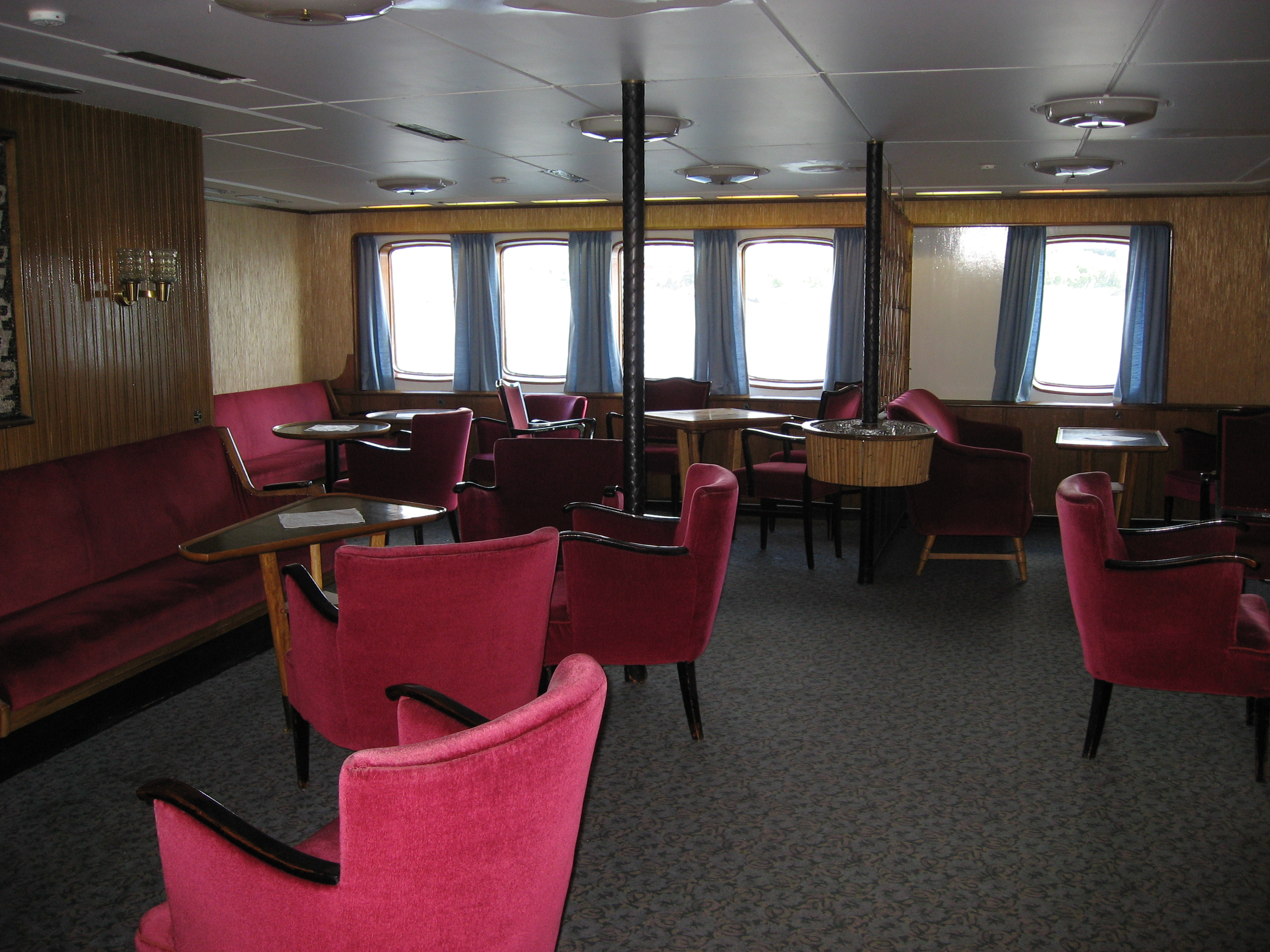 1.class smokers lounge in the former norwegian coastal express (Hurtigruten) ship MS Finnmarken from 1956. The ship is a part of the Hurtigruten museum in Stokmarknes, Norway.